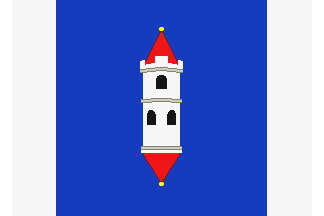 Cpoty of arms of the town of Dobřany, Stod District, Czechia